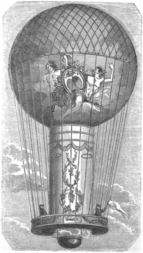 Aéro-montgolfière, used by Jean-François Pilâtre de Rozier and Pierre-Ange Romain on June 15, 1785